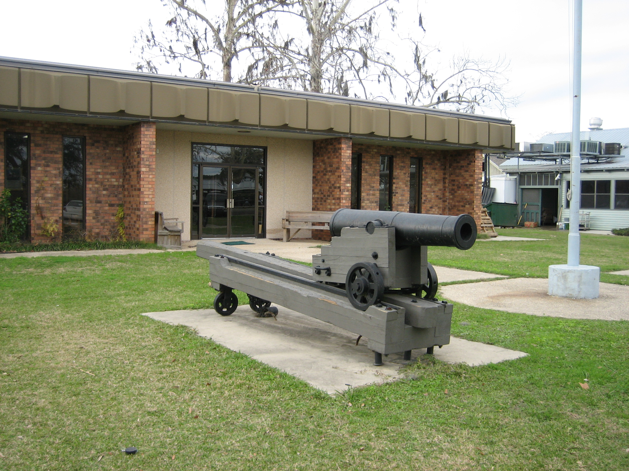 Old cannon with recoil ramp, in front of Town Hall of Madisonville, Louisiana. The cannon is a 24-pounder flank howitzer.